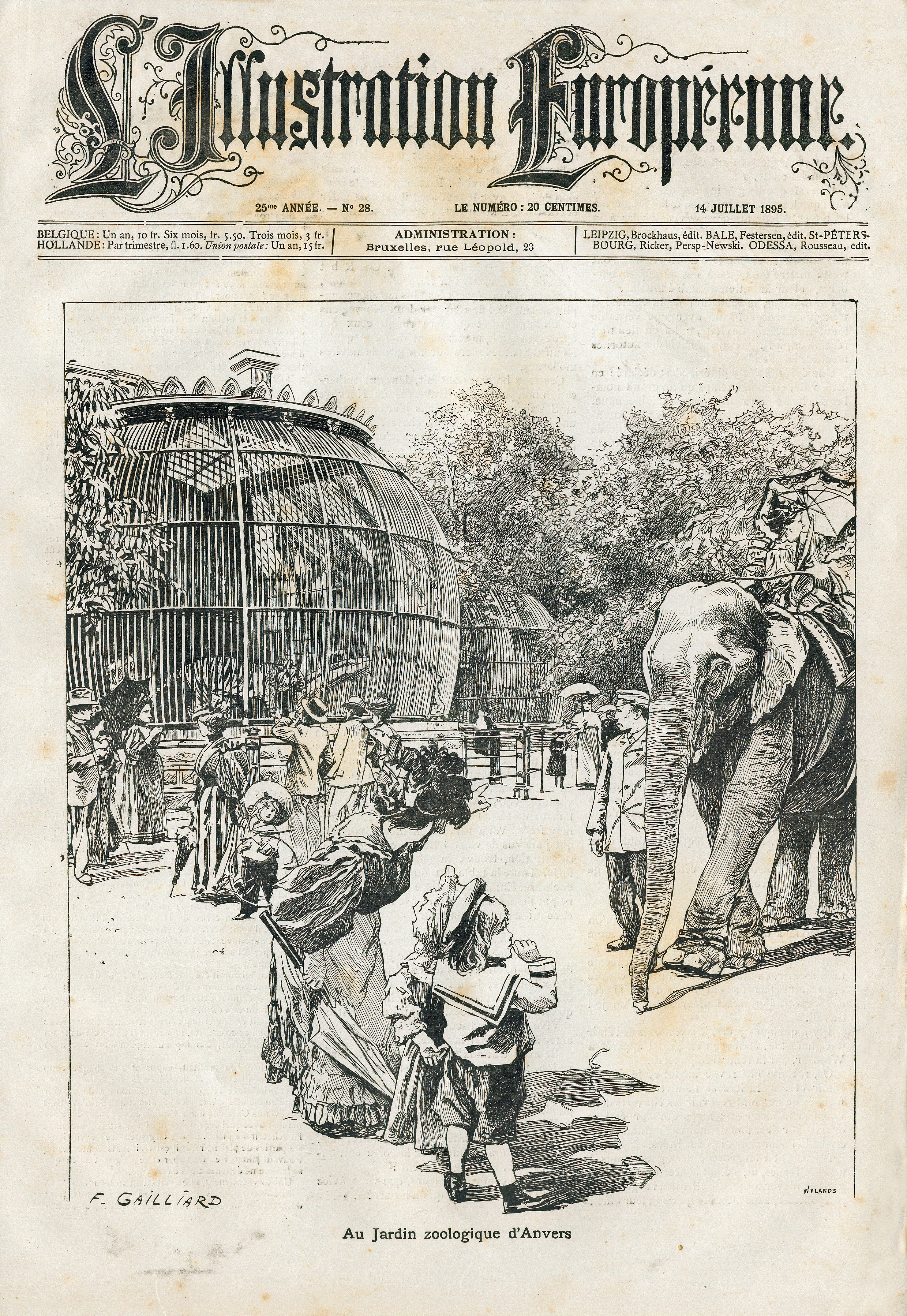 Zoological garden in Antwerp (Belgium), wood engraving after a drawing by Franz Gailliard (1861-1932) on the front page of the Belgian weekly L'Illustration Européenne of 14th July 1895